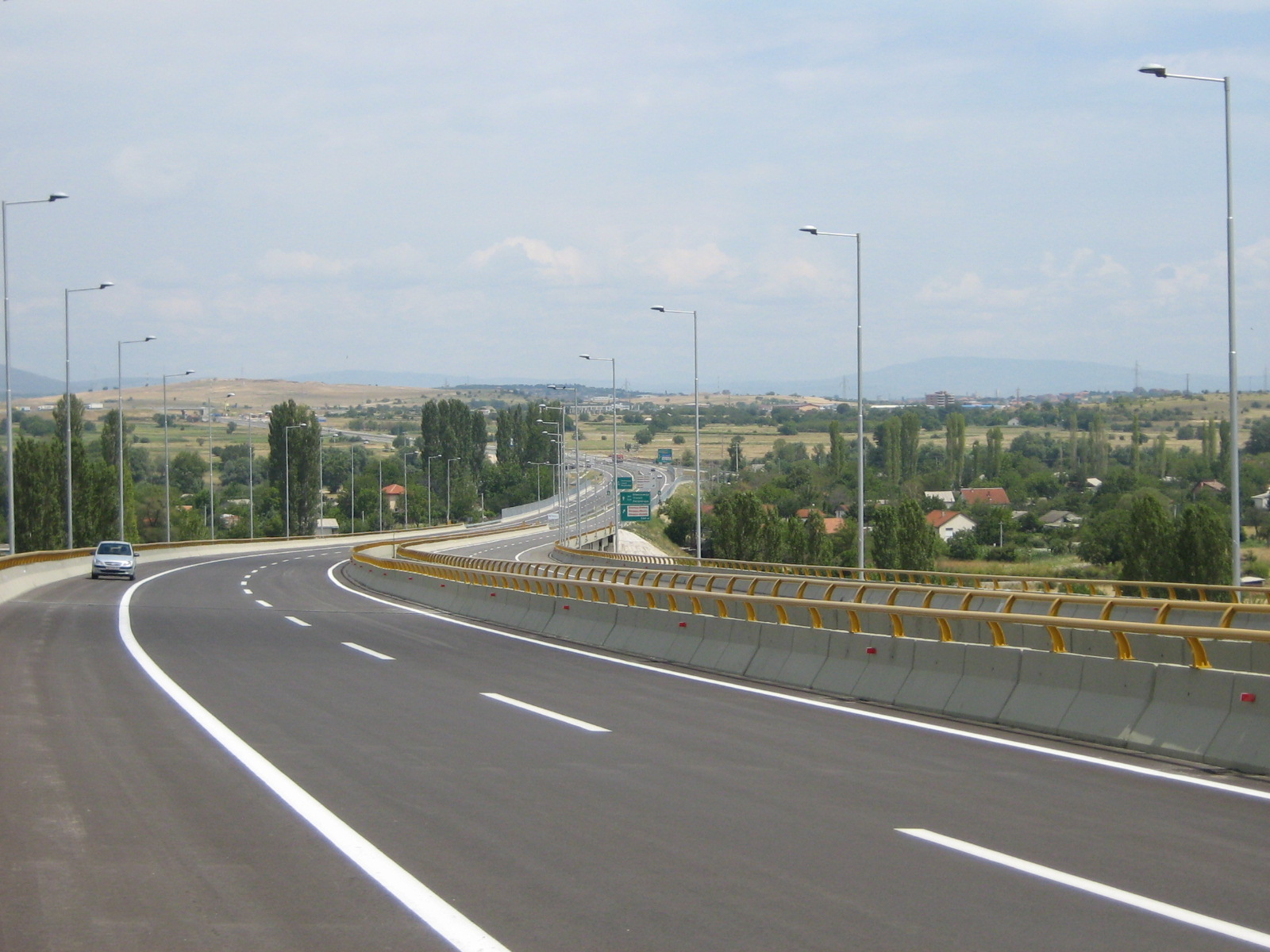 E65/M4 Macedonia, Skopje Northern Bypass